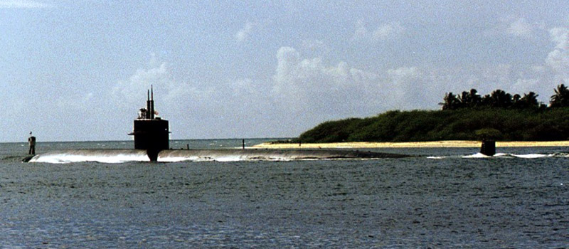 USS Birmingham (SSN-695) exiting Pearl Harbor, Hawaii